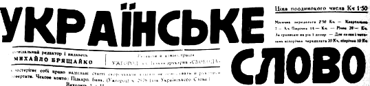 Logo of the Ukrainian-language newspaper «Українське Слово» (Ukrainske Slovo) from Uzhorod, Ukraine, аs it appeared in 1933.